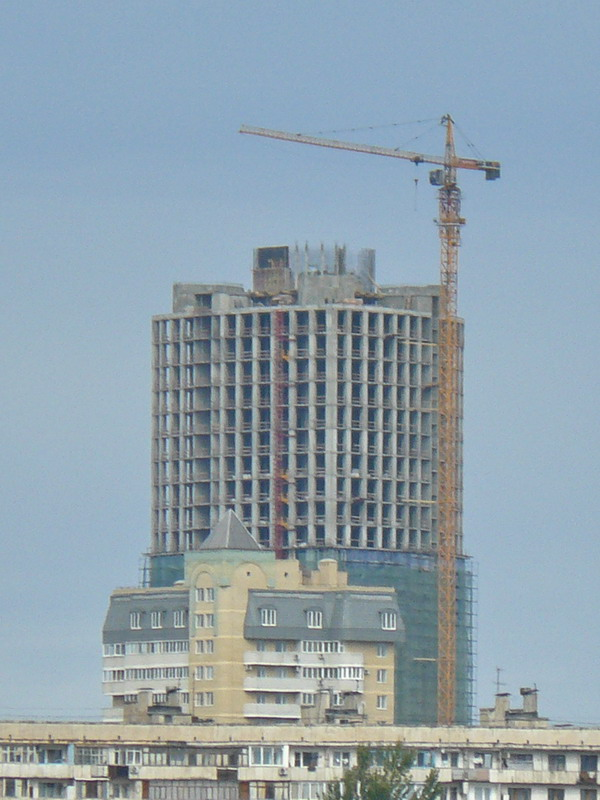 Buisiness center of Volgograd-City under construction. A view from the left coast of Volga.